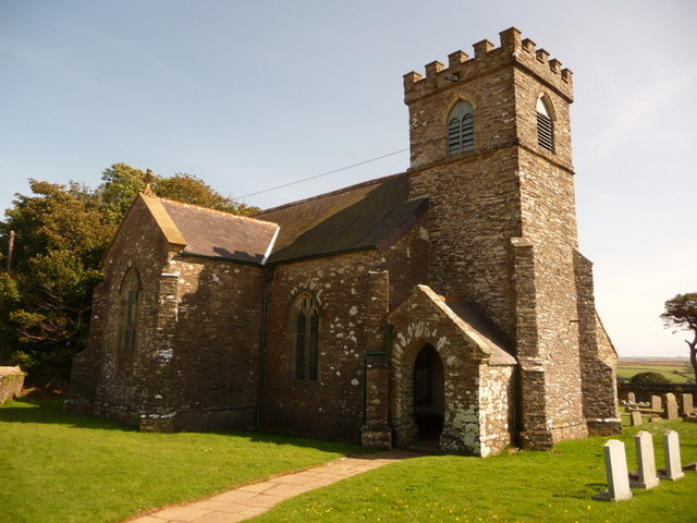 Buckland-tout-Saints: parish church of St. Peter Although the name of this parish would at first glance appear to be a French version of 'All Saints', it does not mean that – as demonstrated by the fact that the church does not have this dedication. The name actually derives from 'Tout-Sain' meaning 'all whole' or 'all healed' – this was the name of a family which was landowner in Saxon times.